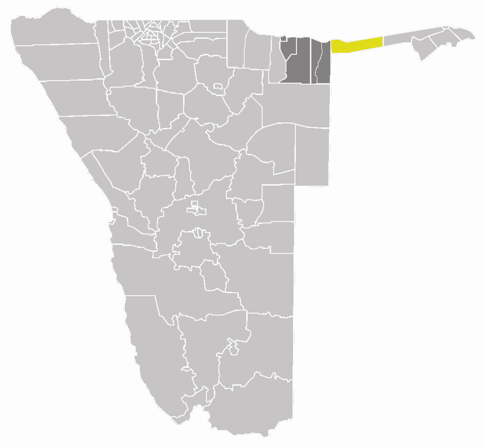 map of the Mukwe constituency within the Kavango region, Namibia